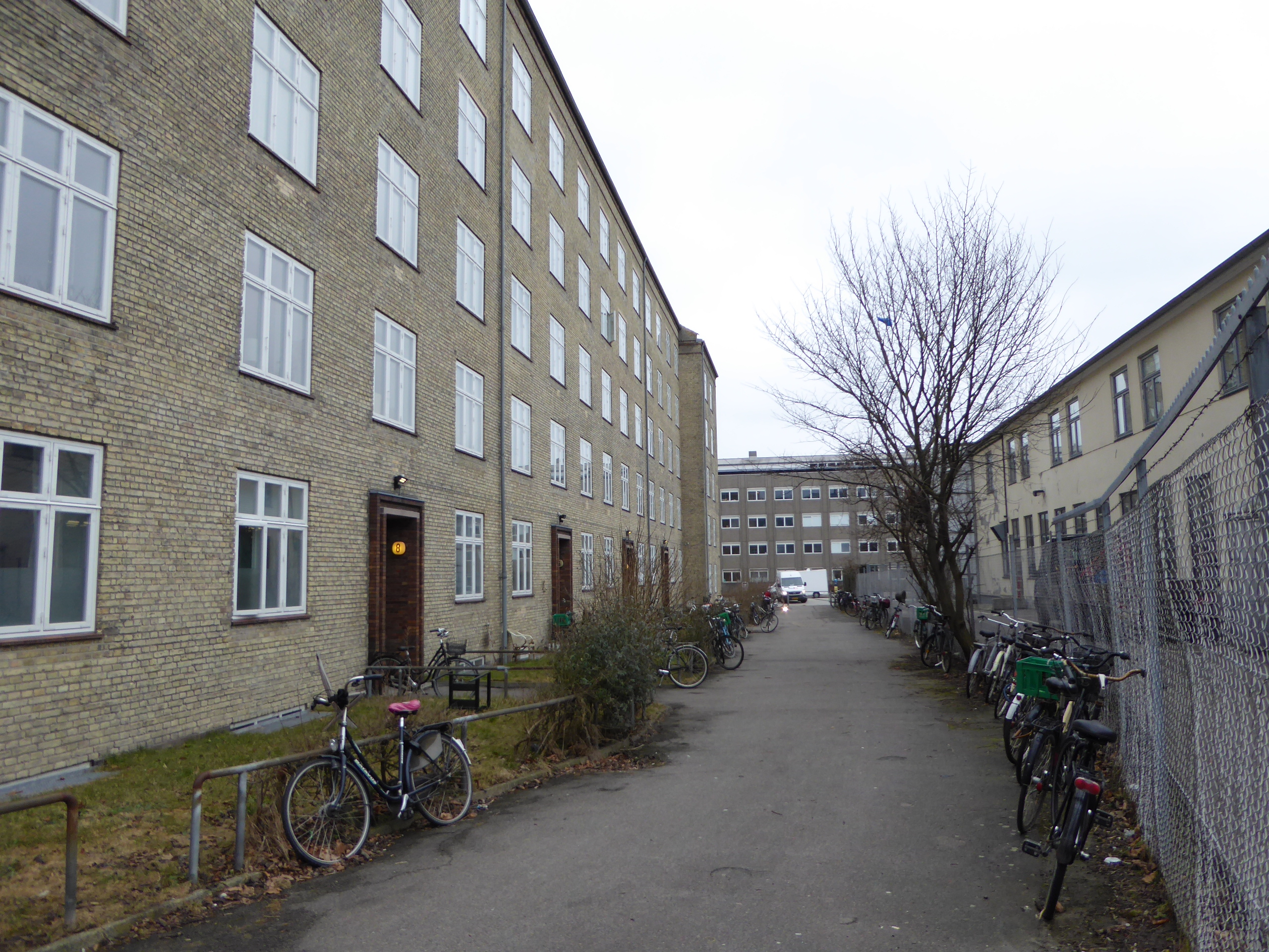 The street Skrivergangen in Nørrebro in Copenhagen.